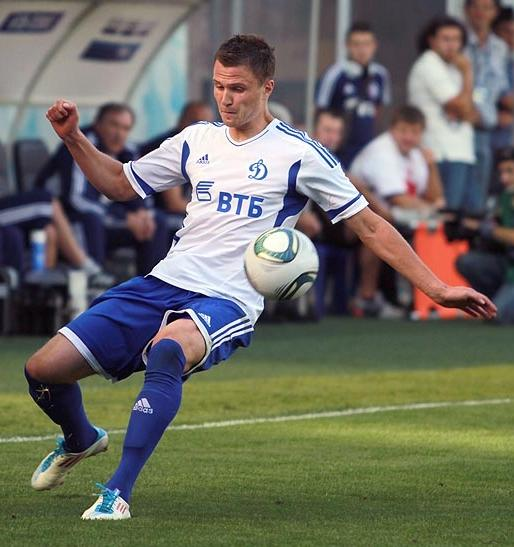 Igor Shitov with FC Dynamo Moscow.